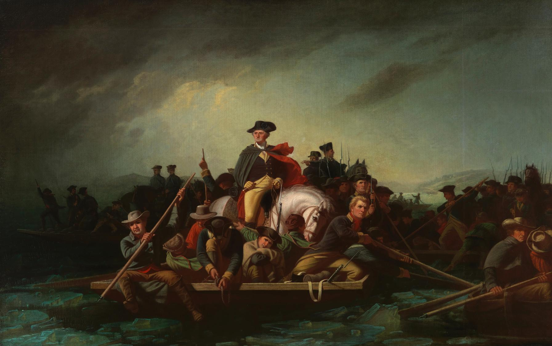 This is an oil on canvas painting. Washington stands at the apex of a pyramid of figures, on horseback. Bingham portrays Washington and his crew riding on a broad, flat-bottomed raftboat, through icy waters; the boat seems to proceed directly toward the viewer.